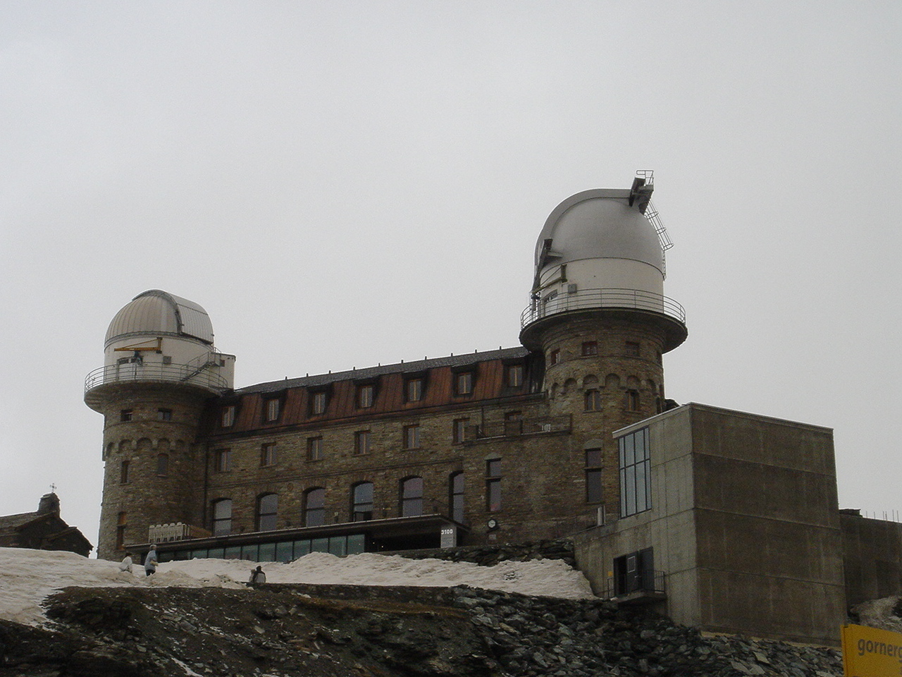 The telescope at the summit of the Gornergrat, Switzerland